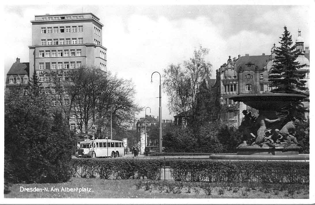 Dresden Albertplatz Hochhaus, Brunnen and Bus